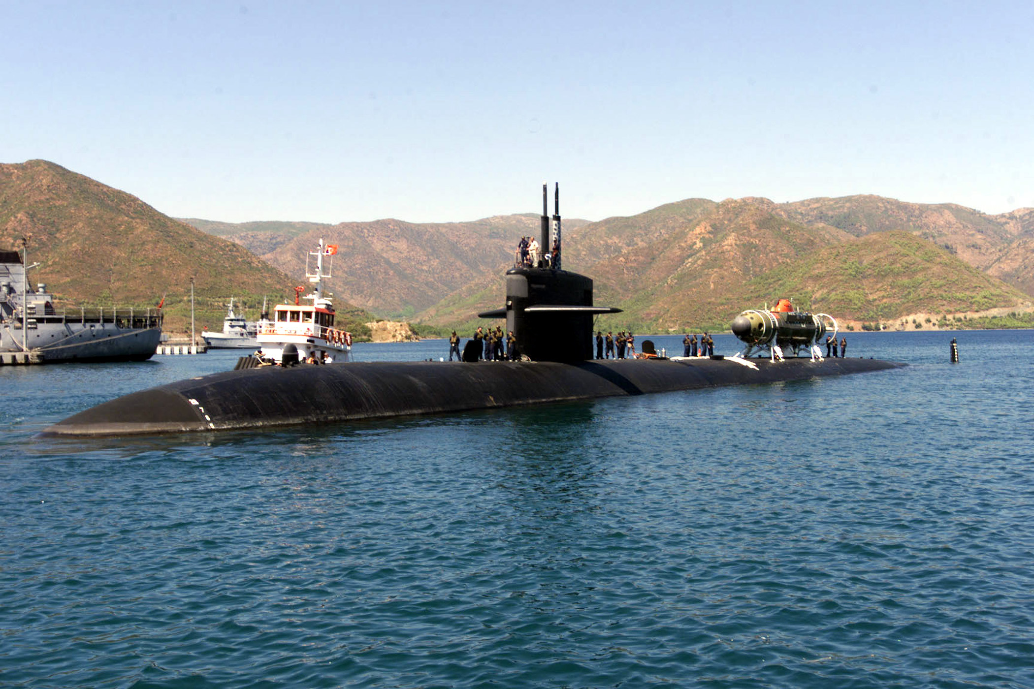 The U.S. Navy Los Angeles-class attack submarine USS Dallas (SSN-700) pulls into Aksaz Naval Base, Turkey, carrying the deep submergence rescue vehicle Mystic (DSRV-1). Dallas was in Turkey conducting training operations in support of the NATO triennial major submarine escape and rescue (SMER) exercise "Sorbet Royal 2000". "Sorbet Royal" involved rescue specialists and naval forces from Italy, Turkey and the United States. (Released).